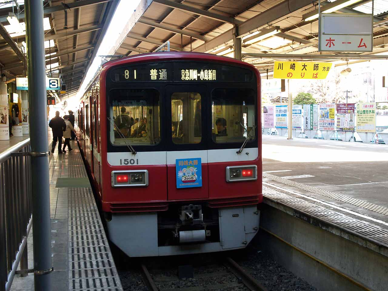 Keikyu 1500 series EMU set 1501 at Keikyu Kawasaki Station on a Daishi Line service with a "Happy New Year" headboard